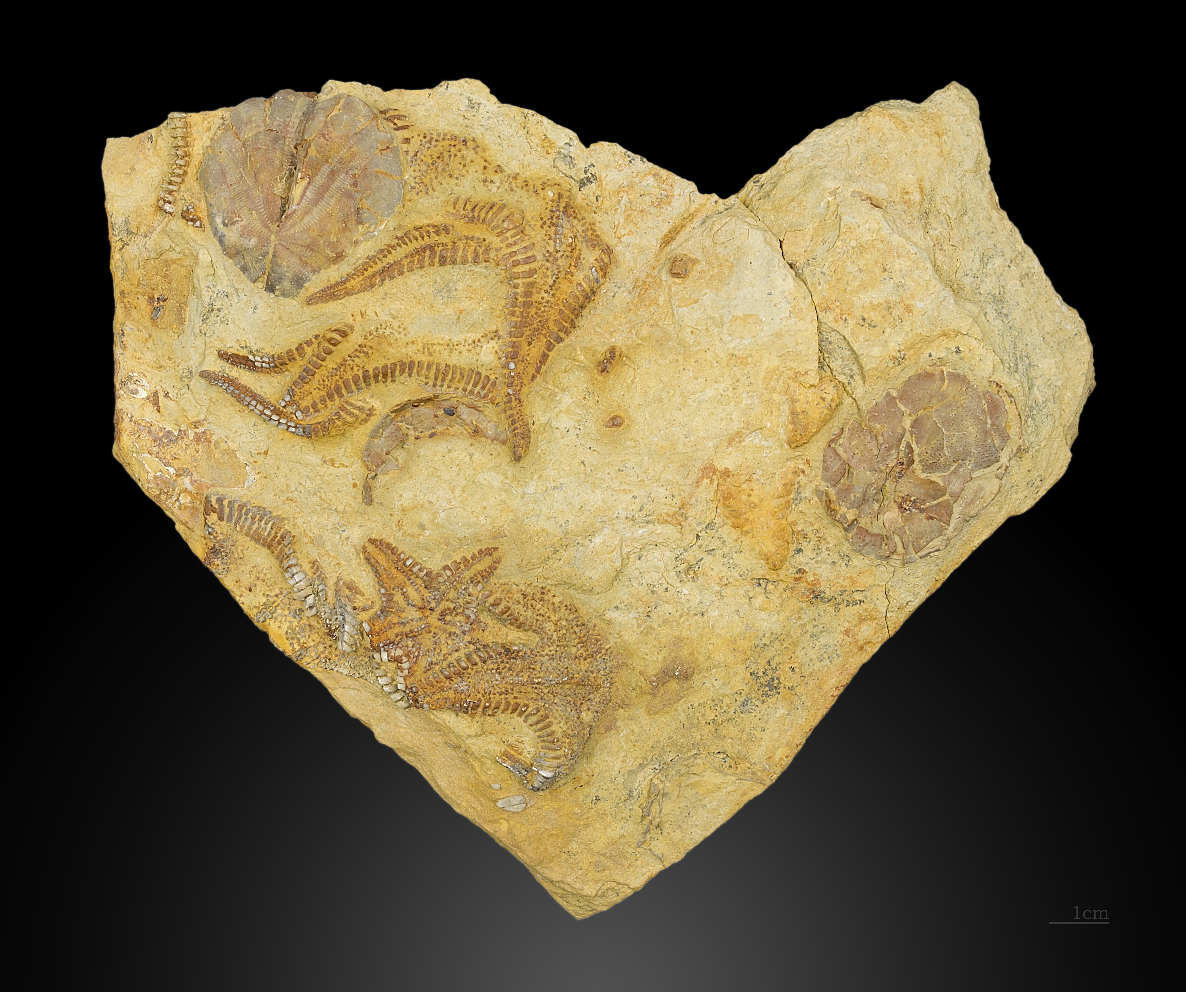 Dipsacaster africanus. Barremian 130.0 ± 1.5 Ma (million years ago) and 125.0 ± 1.0 Ma